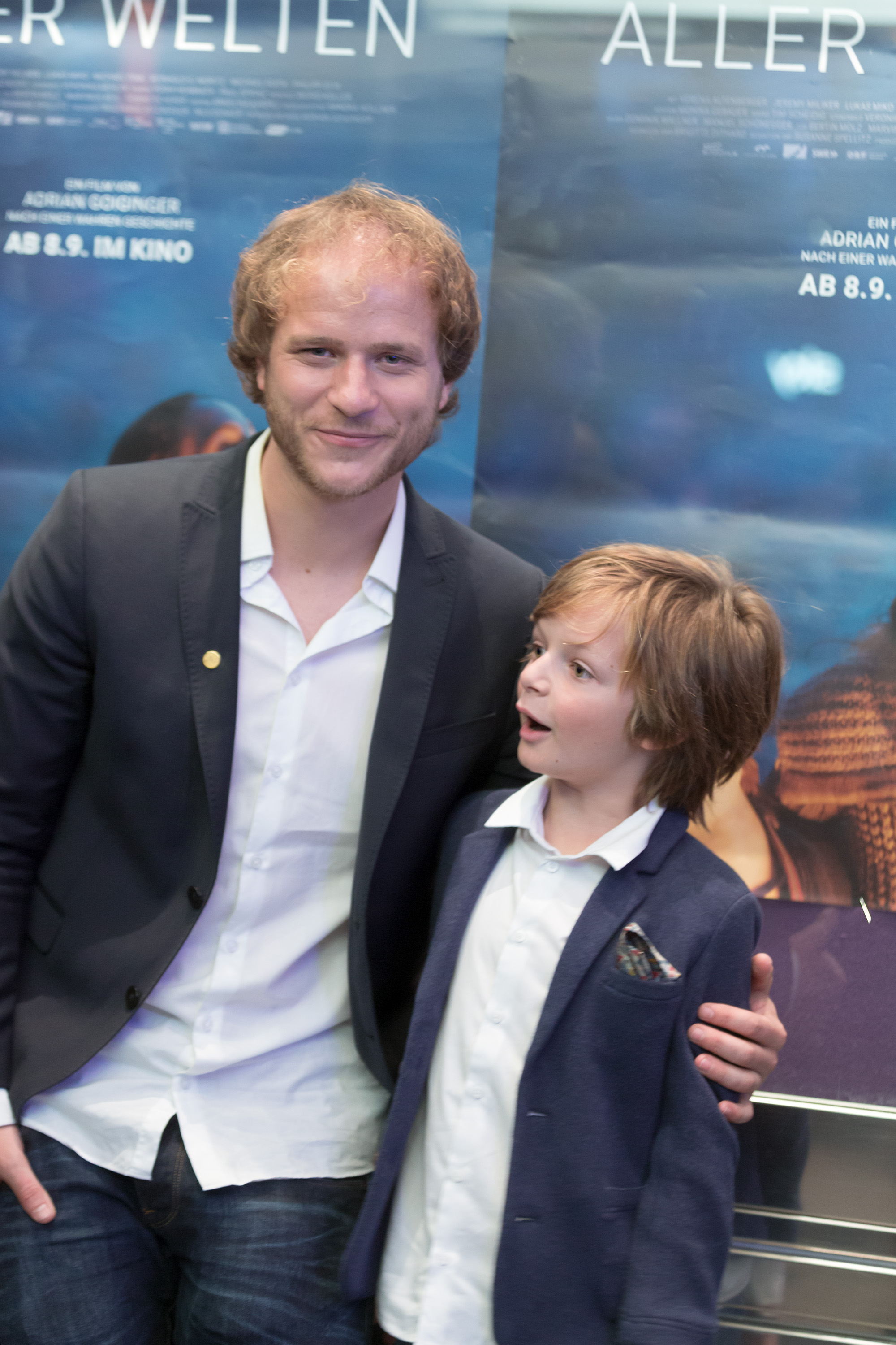 Adrian Goiginger and Jeremy Miliker; Viennese premiere of The Best Of All Worlds at Gartenbaukino, Vienna, Austria.